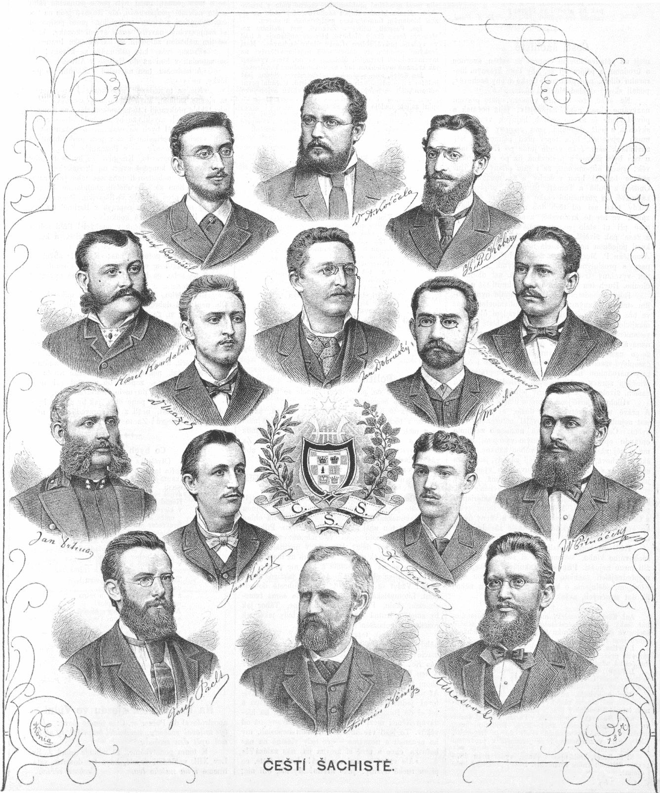 Czech chess composers Antonín König, Jan Drtina, Josef Paclt, Dr. Antonín Kvíčala, Karel Makovský, Karel Bohuš Kober, Dr. Jan Dobruský, Dr. Jan Pilnáček, Jiří Chocholouš, Karel Kondelík, František Moučka, Dr. Eduard Mazel, Josef Pospíšil, Jan Kotrč, Karel Peter Traxler